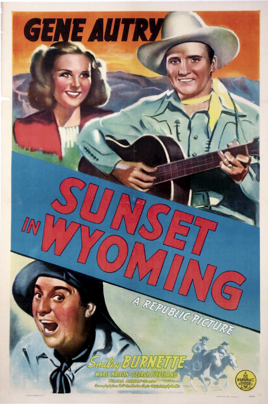 Poster for the 1941 film Sunset in Wyoming. The item has no copyright markings on it as can be seen in the links above. At lower left is Country of origin USA. At lower right is Morgan Litho Comp., Cleveland, O.--they printed the poster--and some numbers which seem to relate to the print job for the poster.